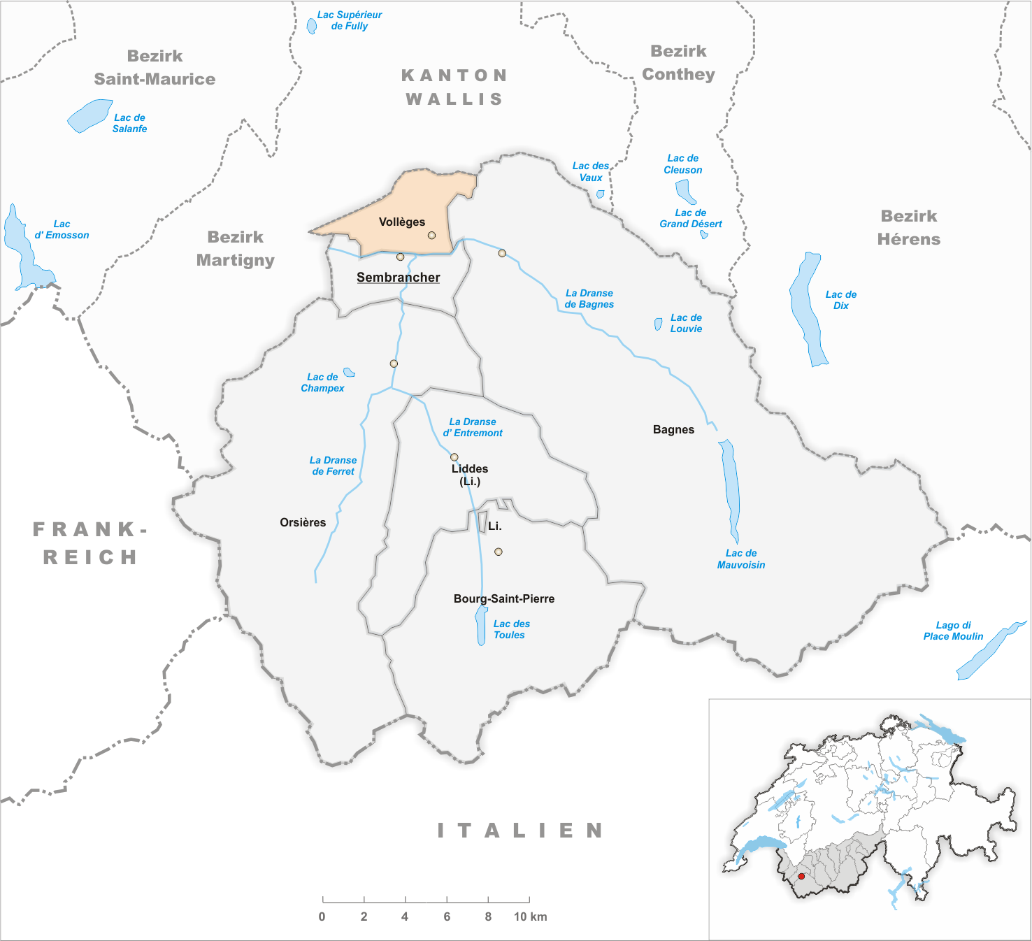 Municipality Vollèges